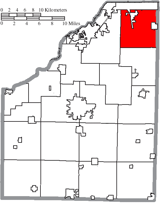 Map of the municipal and township boundaries of Wood County, Ohio, United States, as of the 2000 census, with the location of Lake Township highlighted. Township borders are shown only in unincorporated areas in order to differentiate incorporated and unincorporated areas more clearly.